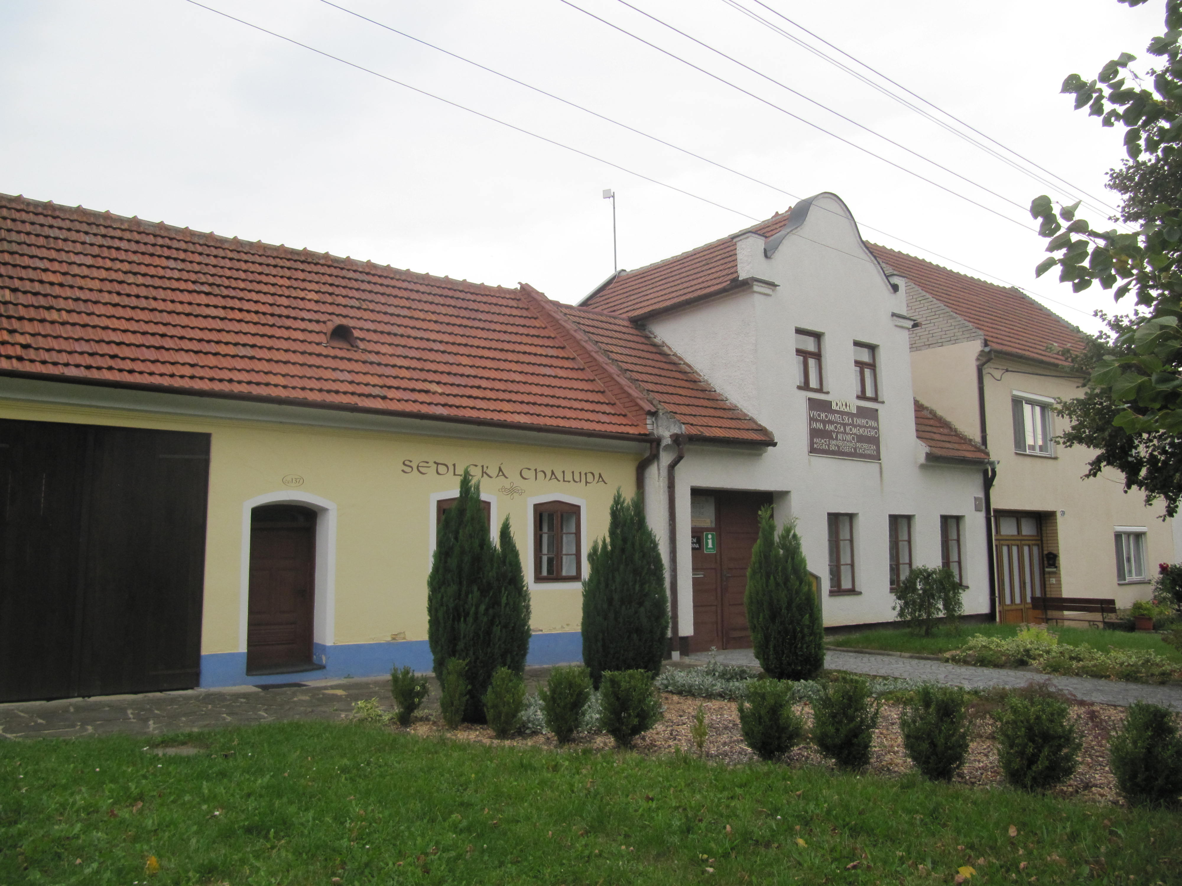 Nivnice in Uherské Hradiště District, Czech Republic.Sedlcká chalupa (cottage) and Nadační dům profesora Kachlíka (library). This photograph was taken within the scope of the third year of the 'Czech Municipalities Photographs' grant.